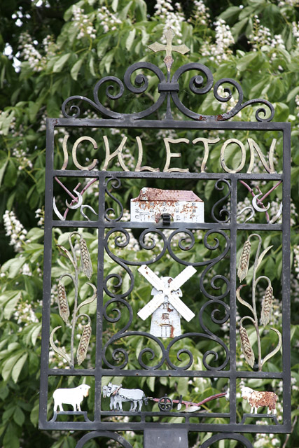 Ickleton, Cambridgeshire: village sign